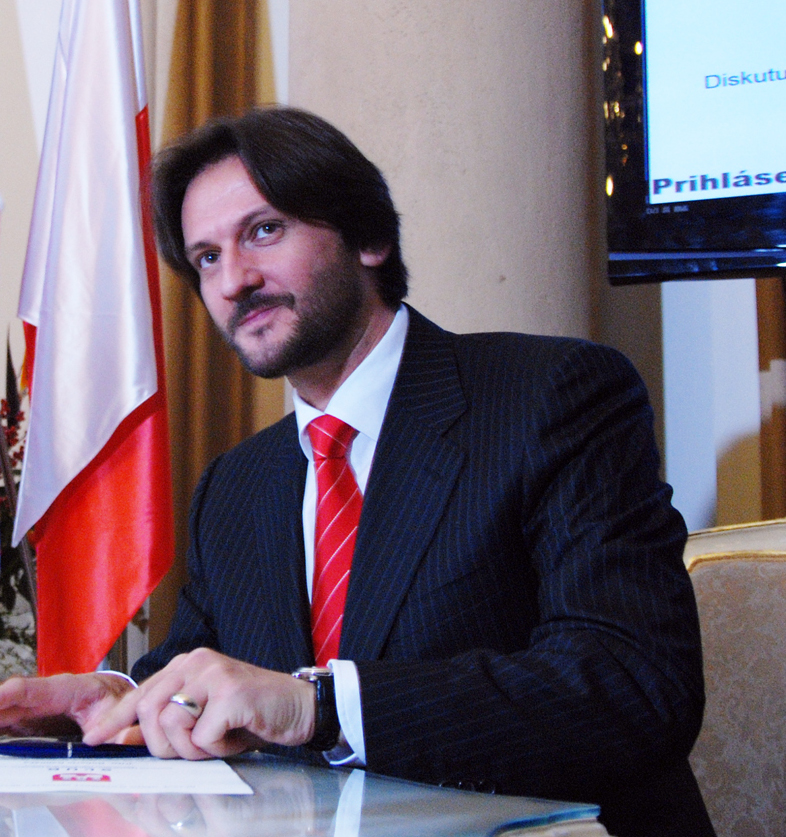 Robert Kaliňák